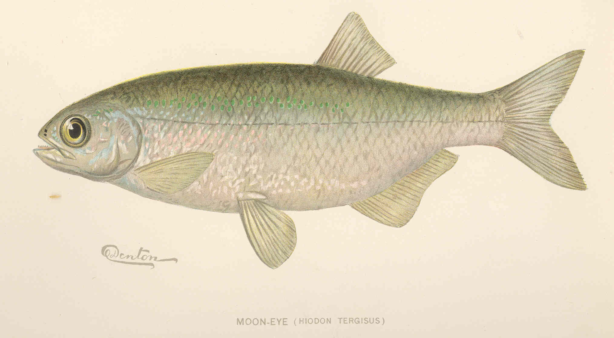 Moon-Eye (Hiodon tergisus) Subject: Mooneye, Hiodon tergisus Tag: Fish